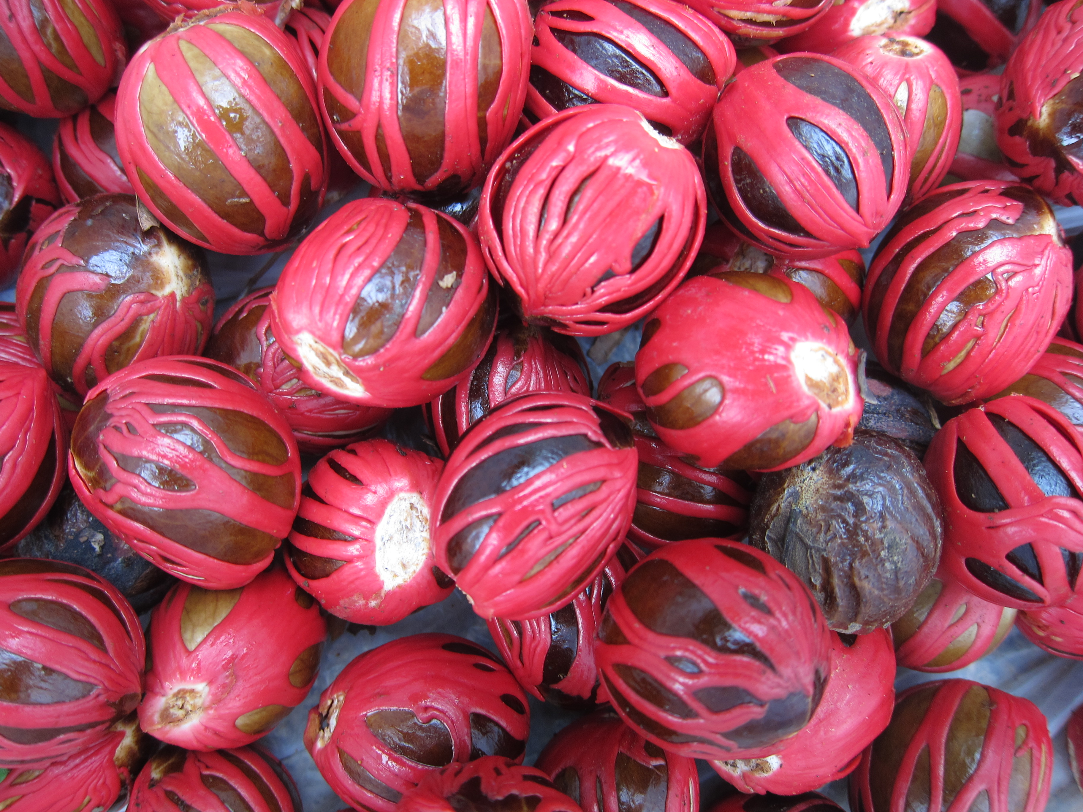 Myristica Fragrans